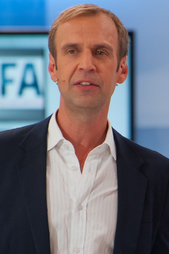 Torsten Knippertz, German TV Presenter at IFA 2013, Hall 23